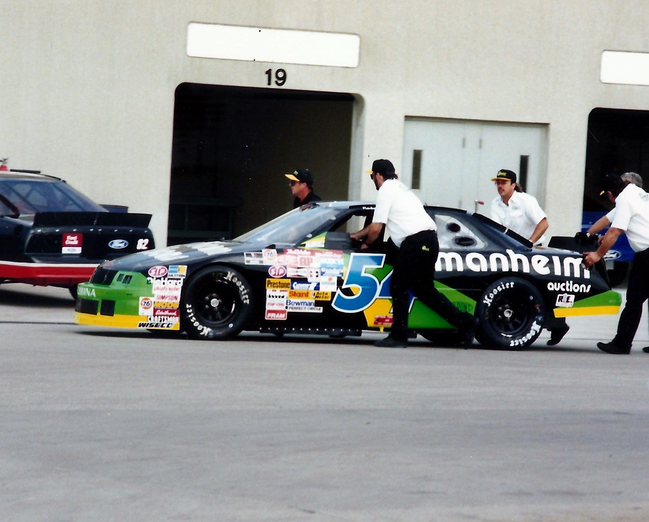 1994 NASCAR Brickyard 400 at the Indianapolis Motor Speedway. Car of #54 Robert Pressley in the garage area during practice.